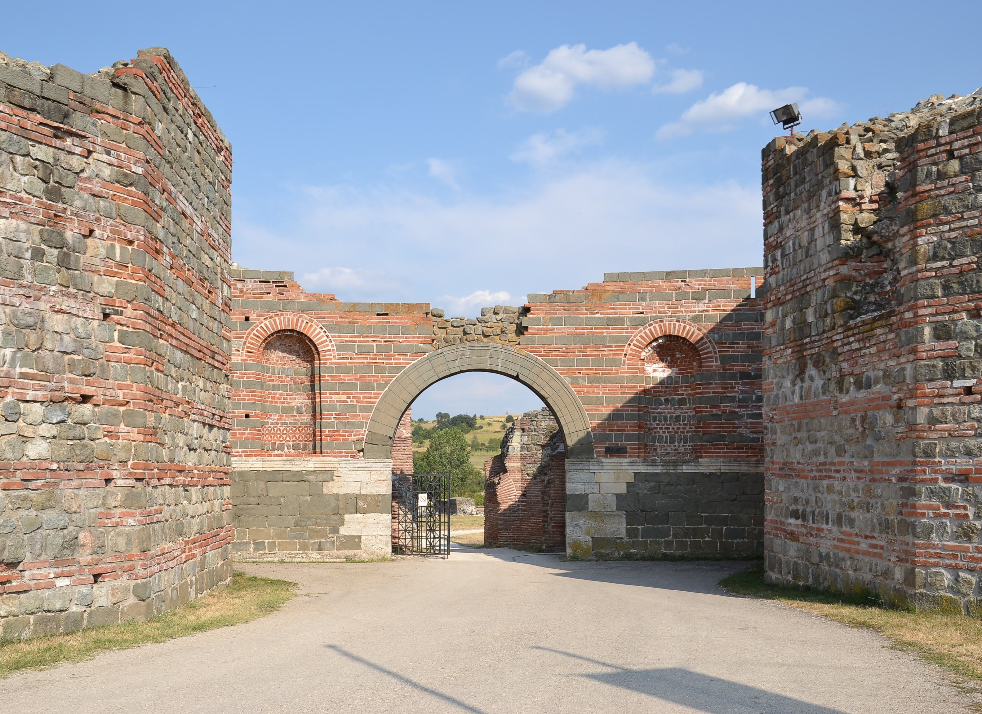 Gamzigrad, Felix Romuliana, Serbia